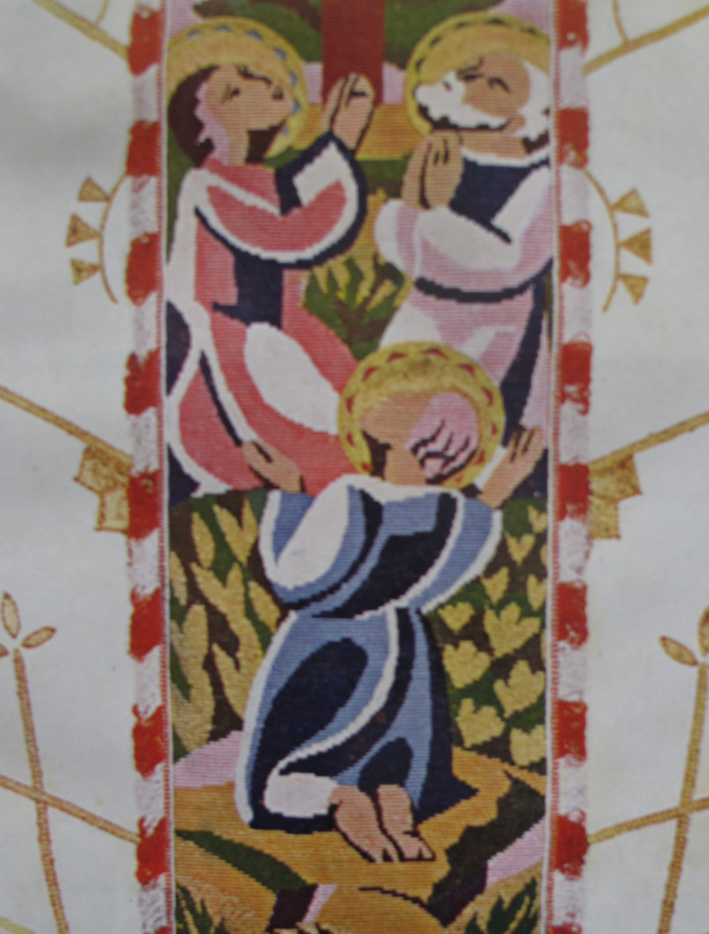 Detall de casulla bordada en punt de tapís de Jaume Busquets